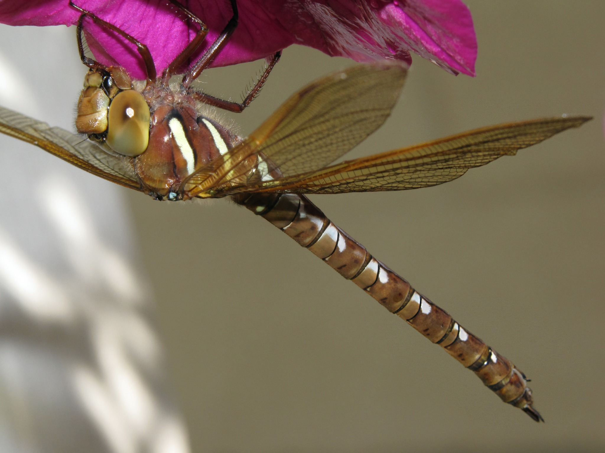 Female Aeshna grandis (Brown Hawker) resting on garden petunia.